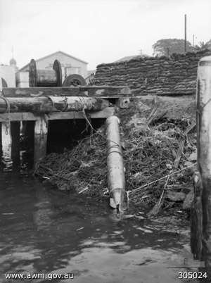 AWM Caption: SYDNEY, NSW. 1942-06-10. THE SPENT 17.7 INCH TORPEDO, EITHER TYPE 96 OR 97, FIRED BY THE UNIDENTIFIED JAPANESE MIDGET SUBMARINE (KNOWN AS MIDGET A), WHICH RAN ASHORE AT GARDEN ISLAND DURING THE ATTACK ON SYDNEY HARBOUR ON 31 MAY 1942. NOTE THE BLAST WALL OF SANDBAGS IN THE BACKGROUND, CONSTRUCTED PRIOR TO THE TORPEDO BEING DRAGGED FURTHER IN. (NAVAL HISTORICAL COLLECTION).